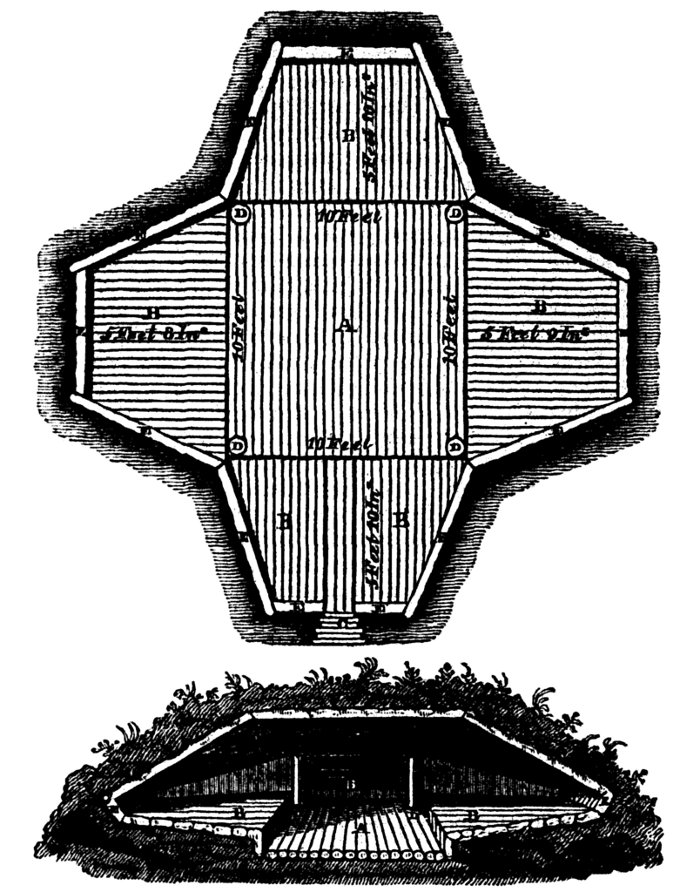 Cross-section of an Inuit dwelling as interpreted by John Richardson